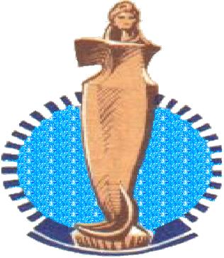 Coat of arms of Red Sea Governorate